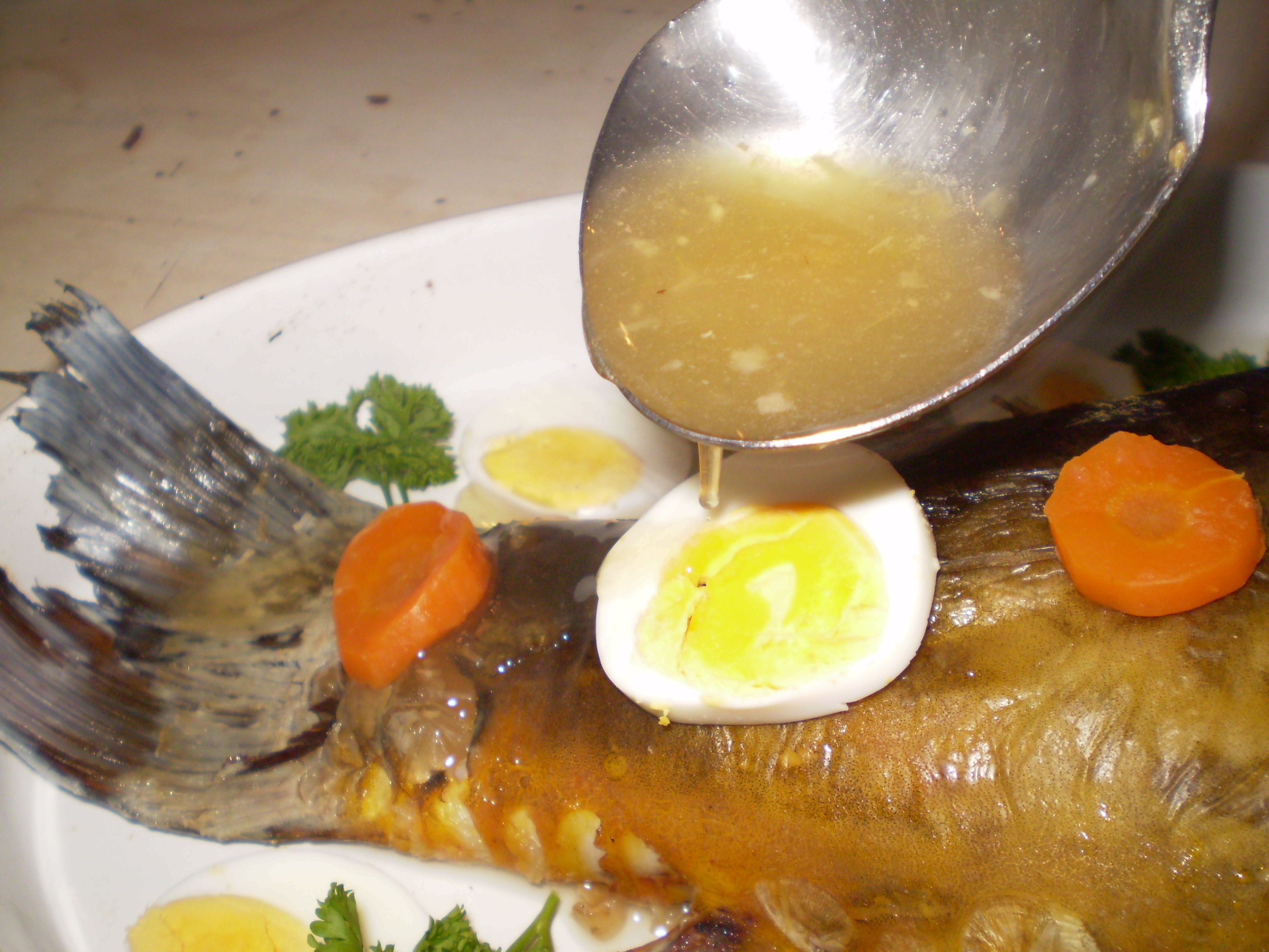 gefilte fish: East European Jewish dish for Shabbat and holidays - original cooking method: a whole fish stuffed - pouring the fish with fish stock